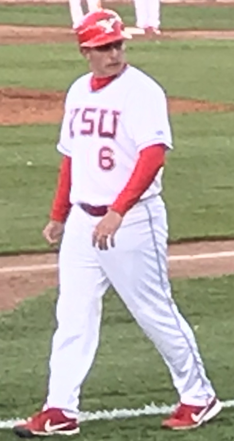 Dan Bertolini coaching third